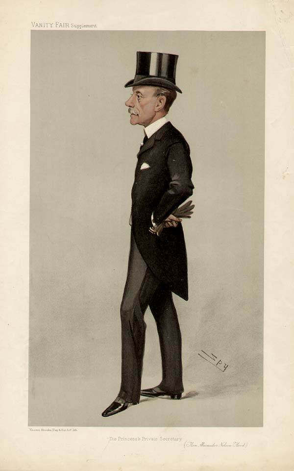 Men of the Day No.987: Caricature of Hon. Sir Alexander Nelson Hood, 5th Duke of Bronté. Caption reads: "The Princess's Private Secretary"